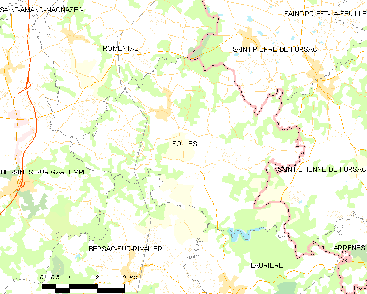 Map of French municipality Folles